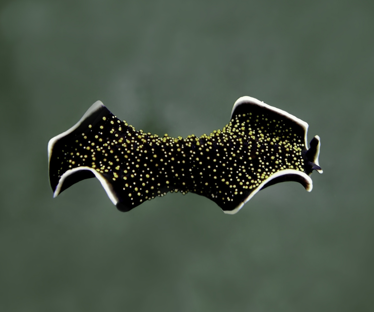 Yellow papillae flatworm (Thysanozoon nigropapillosum) swimming at 40 ft (12 m) depth, Manta Ray Bay, Yap, Federated States of Micronesia.